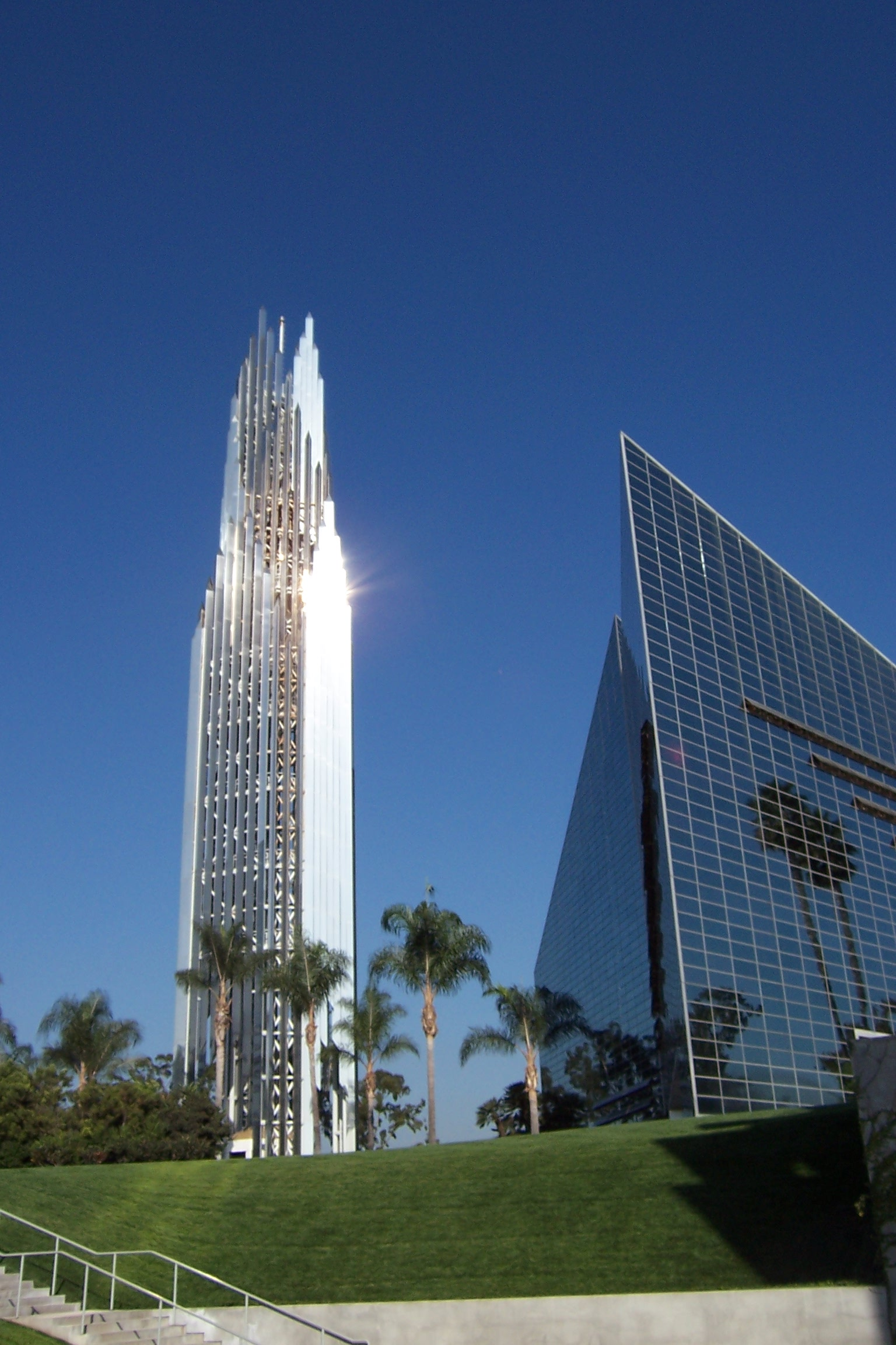 Crystal Cathedral